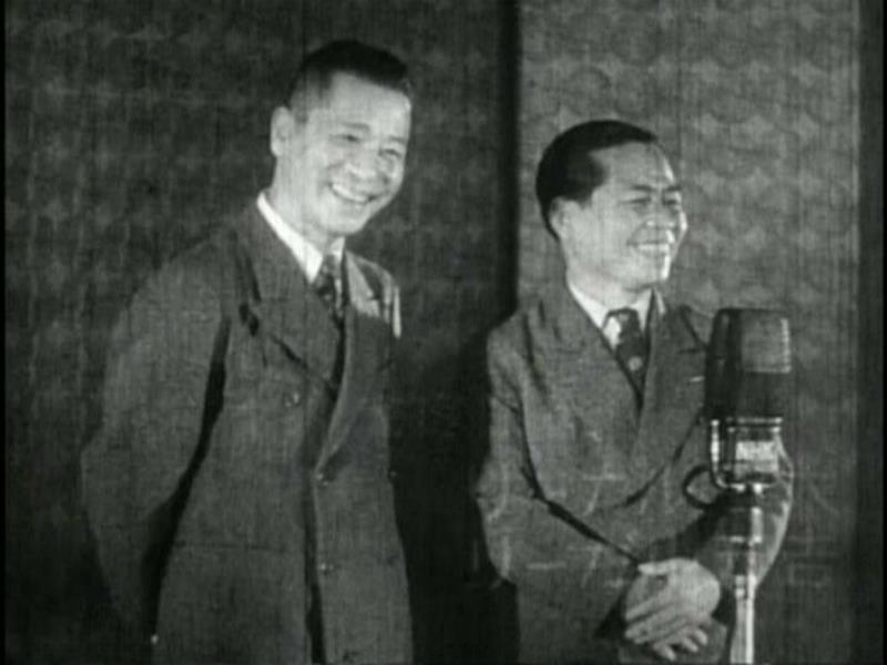 Reagl Senta & Mankichi (Manzai) , 1948.